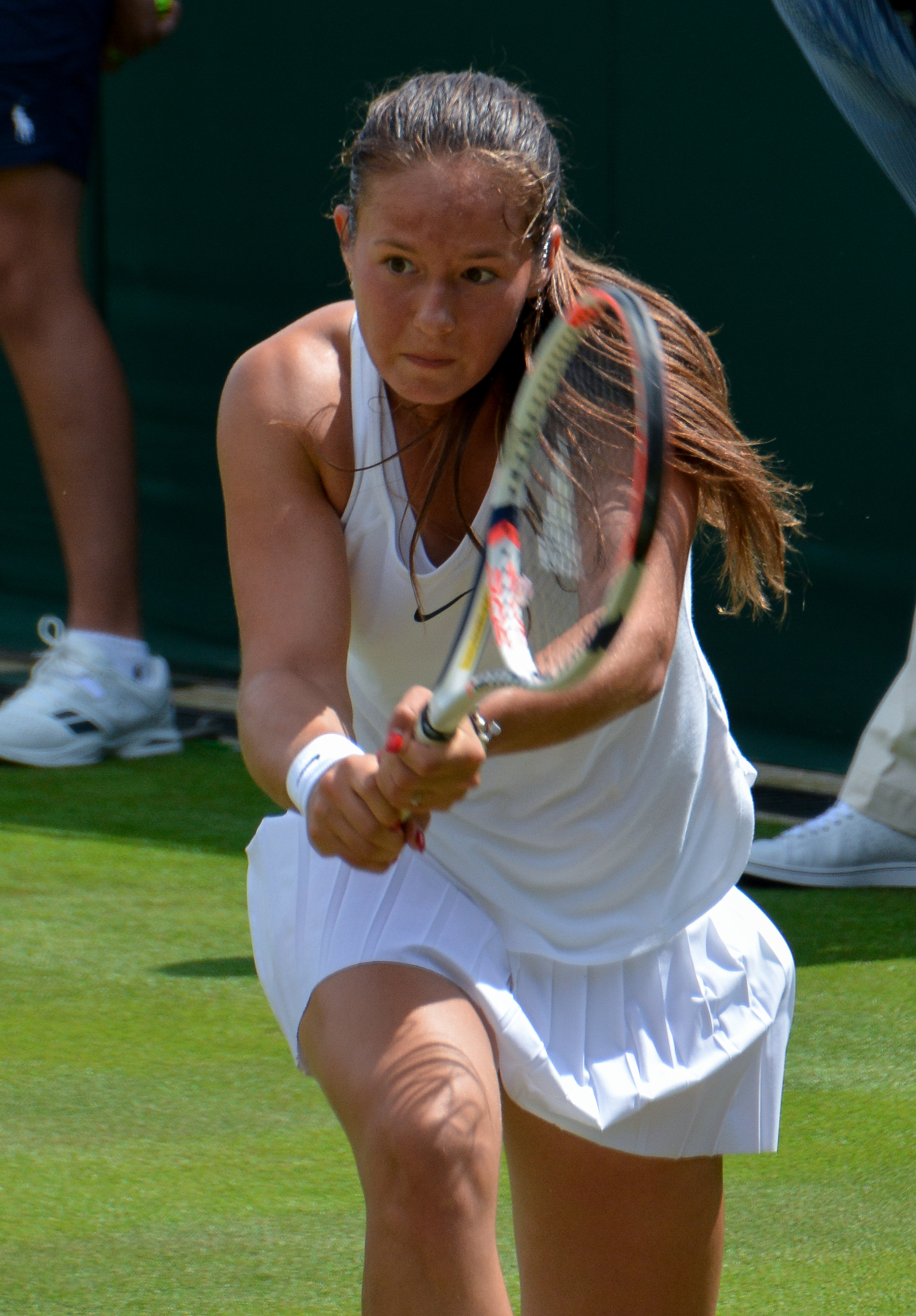 Day 1 of Wimbledon 2016